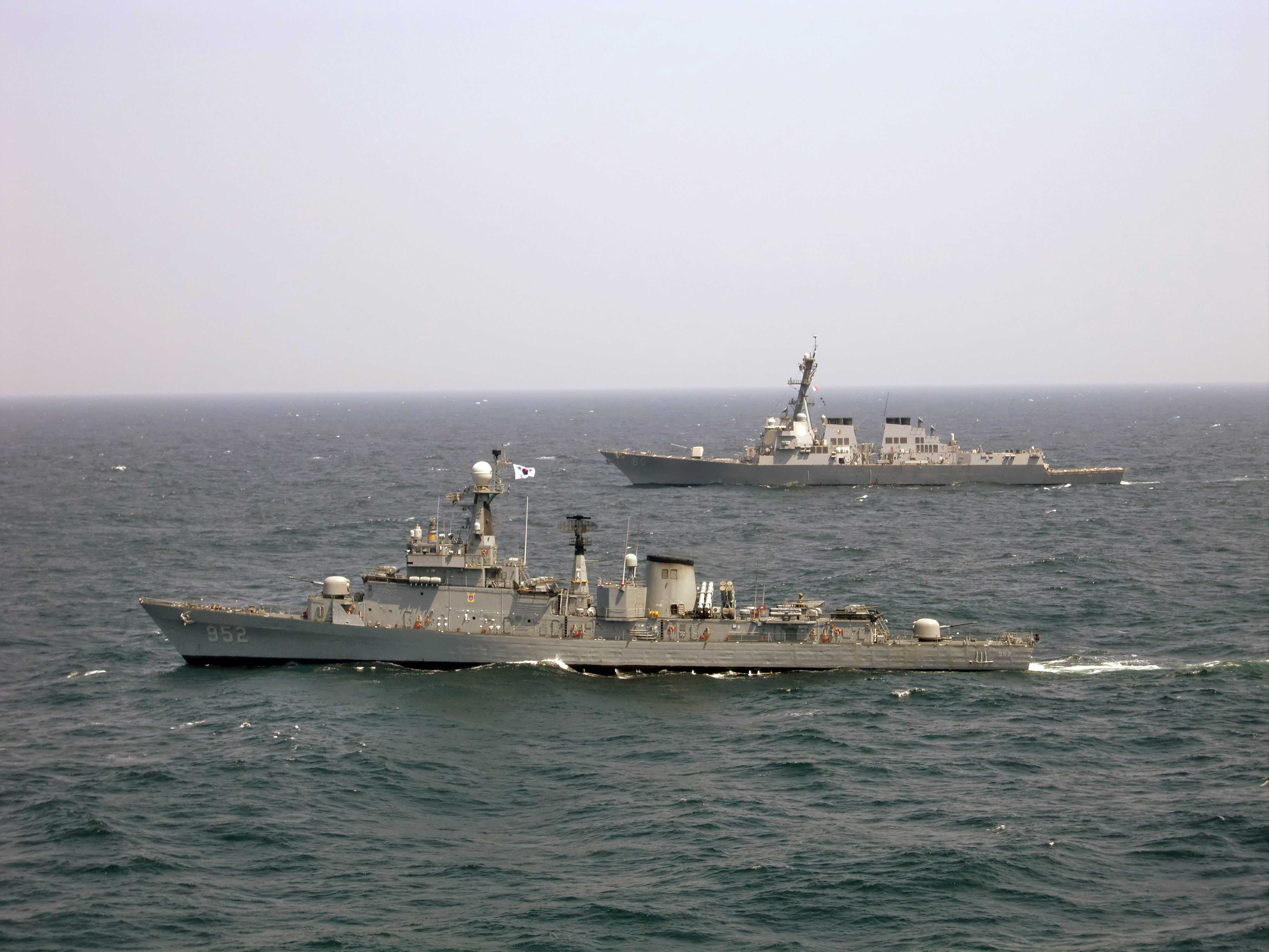 PACIFIC OCEAN (April 18, 2011) The guided-missile destroyer USS McCampbell (DDG 85), right, is underway alongside the Republic of Korea Ulsan-class frigate ROKS Seoul (FF 952) during a passing exercise. (U.S. Navy photo by Naval Air Crewmen 1st Class Michael Adomeit/Released)